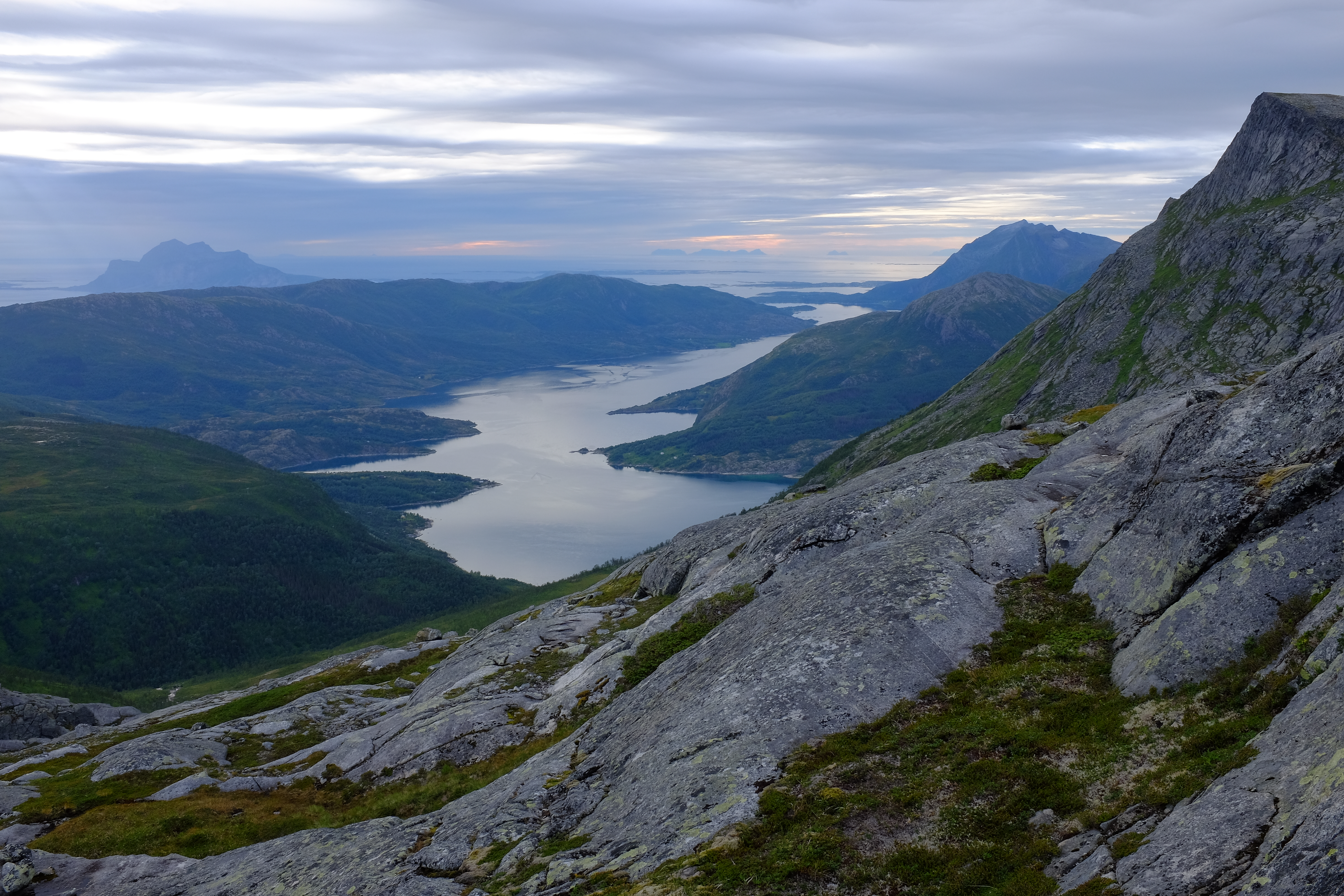 View from Sokumfjellet mountain towards Morsdalsfjorden fjord, Gildeskål, Nordland, Norway. Sandhornøya island on the right. Some of the islands in Lofoten can be seen in the distance.